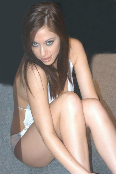 Picture of model Cassia Riley